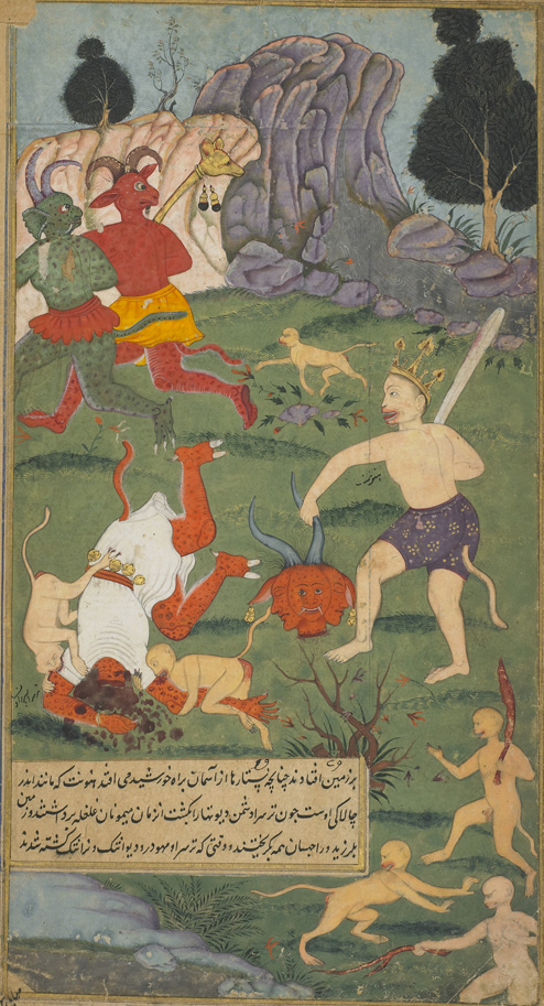 Folio from the Ramayana of Valmiki (The Freer Ramayana), Vol. 2, folio 228; recto: text; verso: Hanuman beheads Trisiras 1597-1605 Shyam Sundar , (Indian, Mughal dynasty Opaque watercolor, ink, and gold on paper H: 27.5 W: 15.2 cm Northern India F1907.271.228